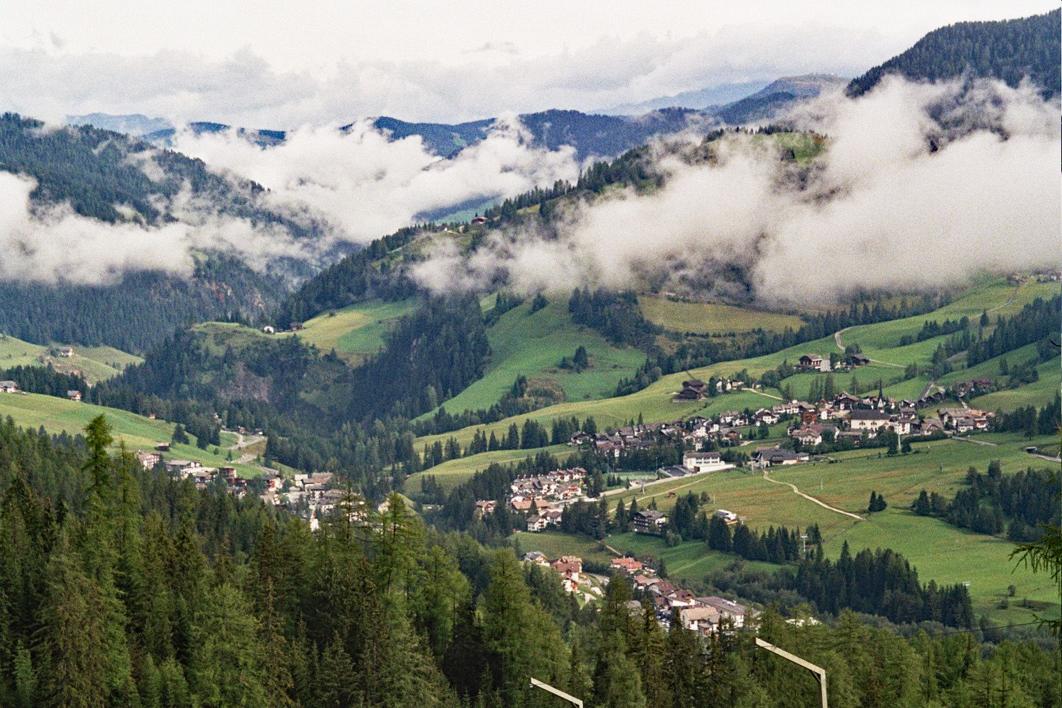 St. Leonhard und Pedratsches in Südtirol